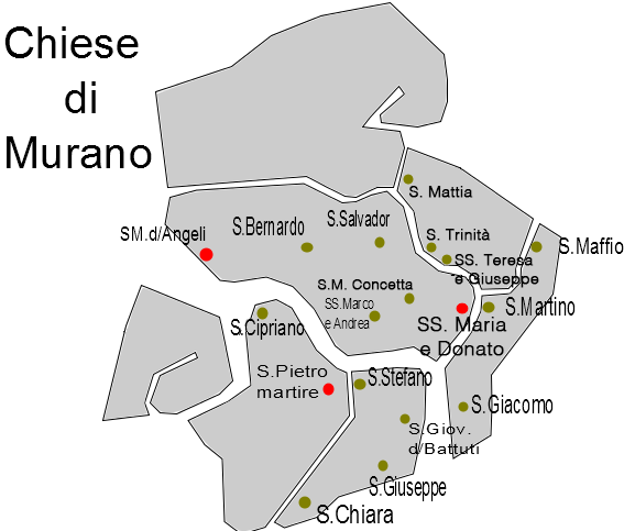 map of churches in Murano